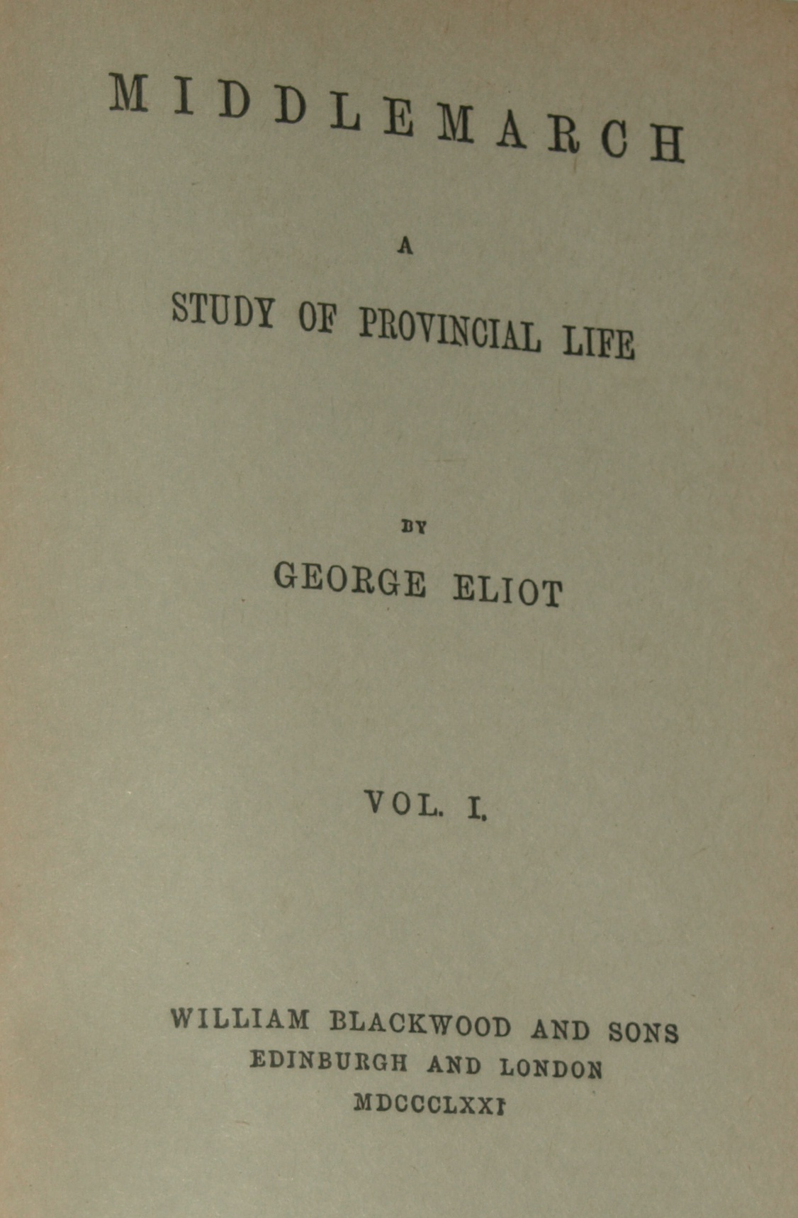 Facsimile of title page of Volume I of the first edition of Middlemarch, 1871, by George Eliot